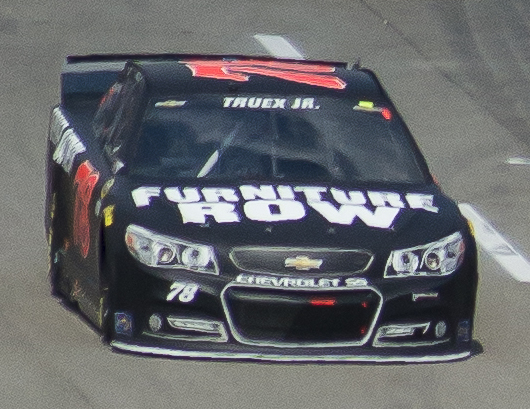 Pure Michigan 400 Race at Michigan International Speedway on 8-16-15 Nascar